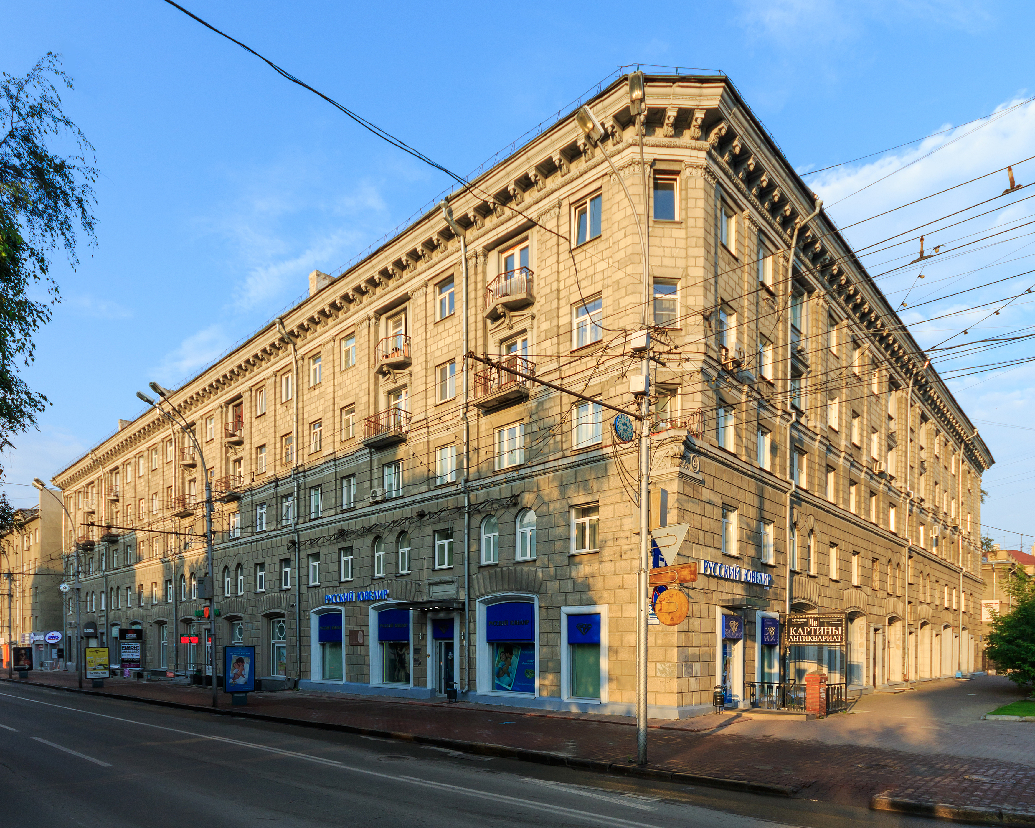 Stalinist-style residential building (listed) in Novosibirsk, Russia